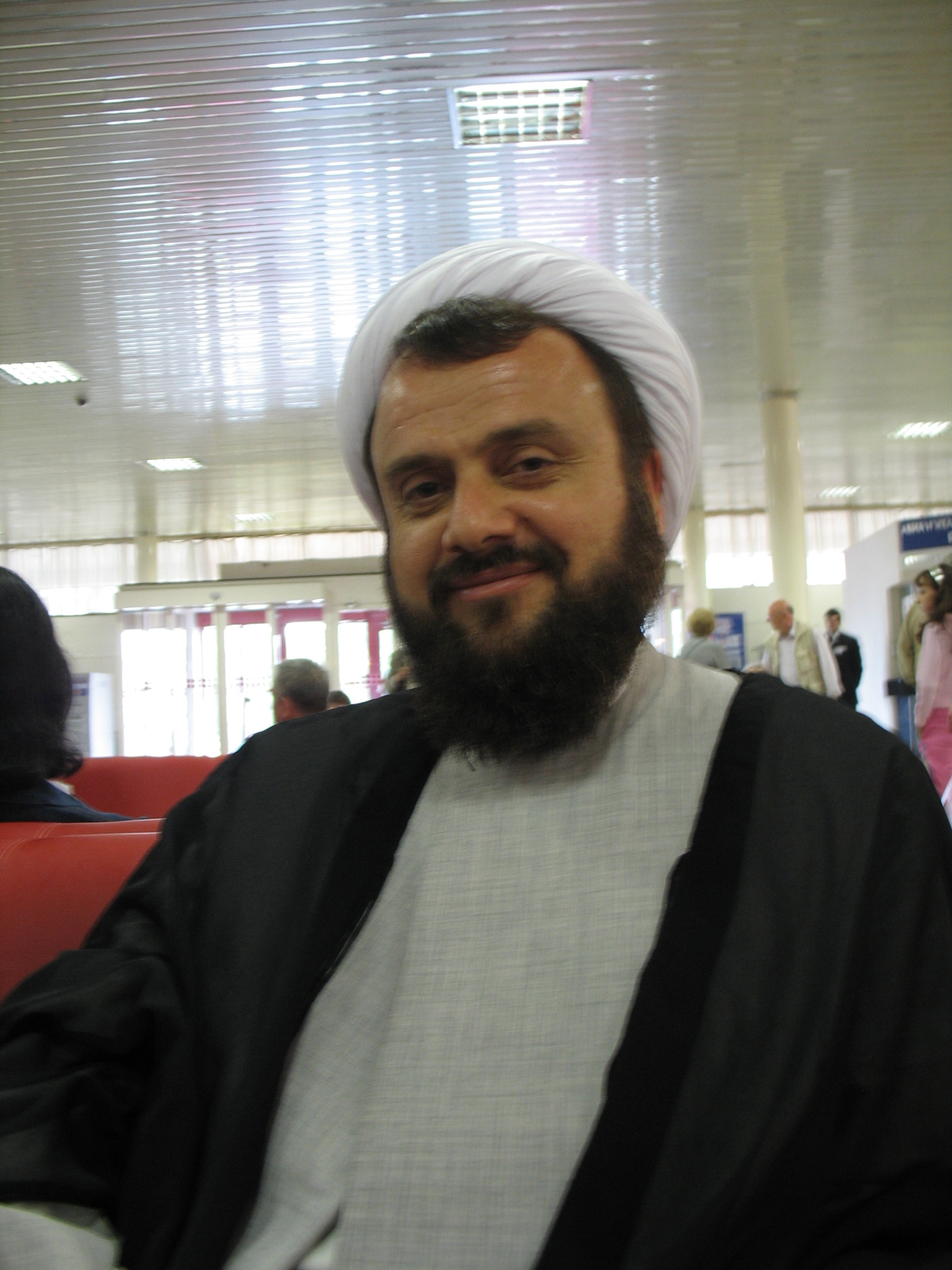 Ayatollah Dr. Mahdi Hadavi